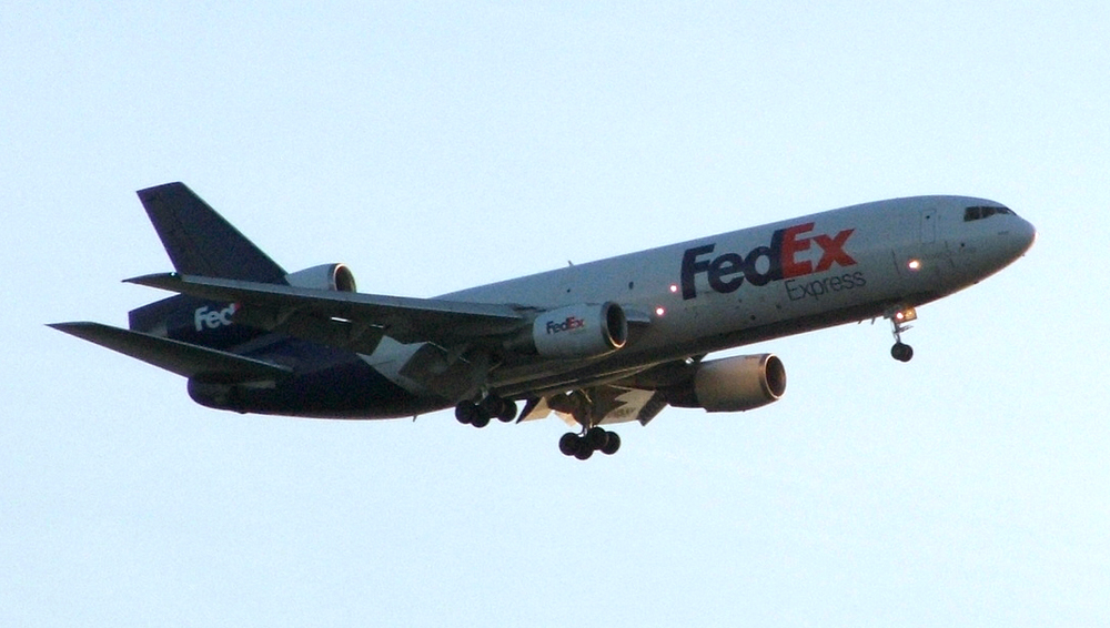 Fedex DC-10 on approach to Oakland Airport